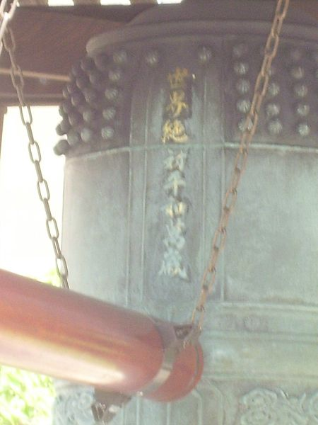 Japanese inscription on the United Nations Japanese Peace Bell. Photograph credit: Dragonbite.